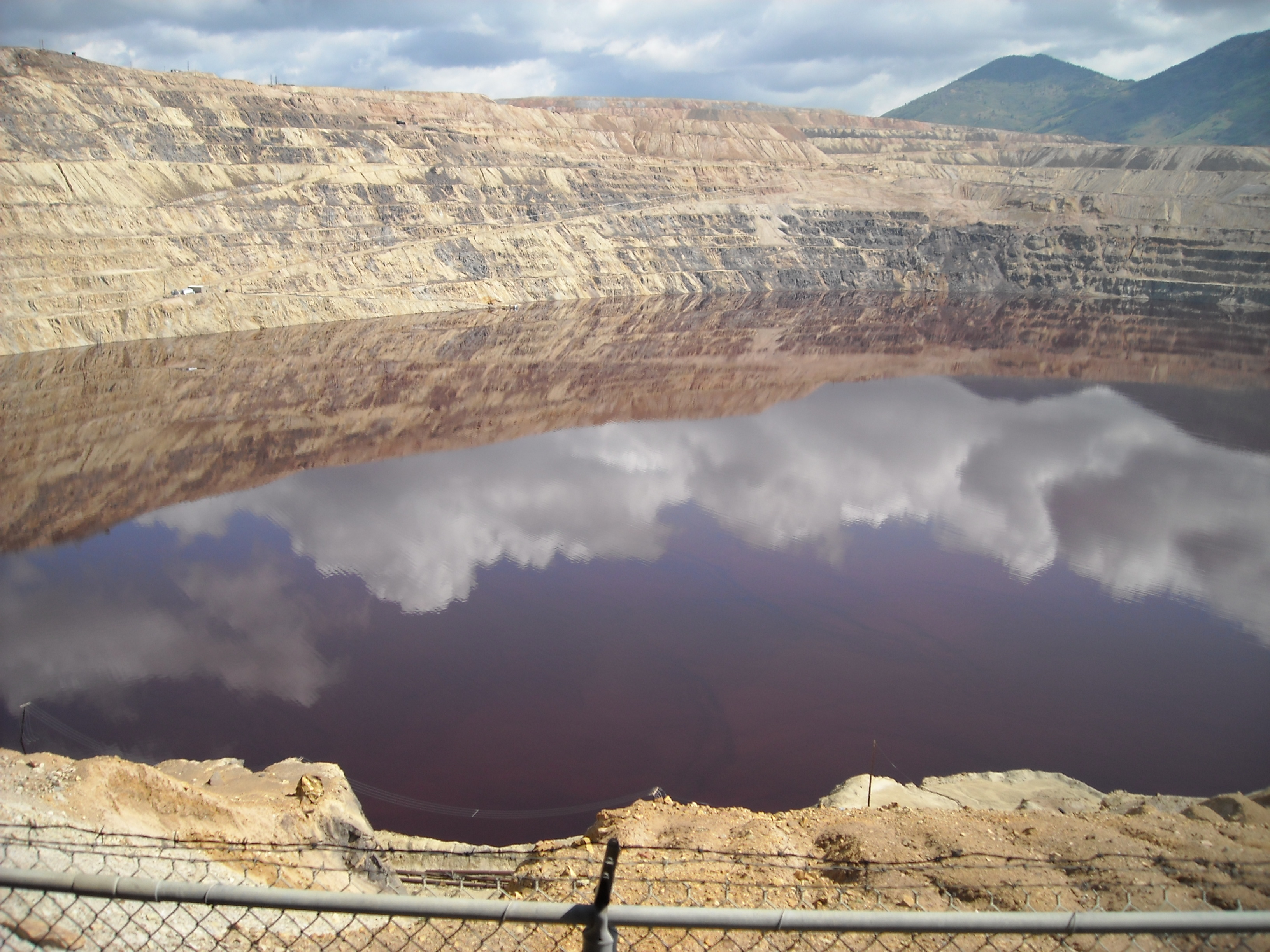 The Berkeley Pit, an open pit copper mine in Butte, Montana.